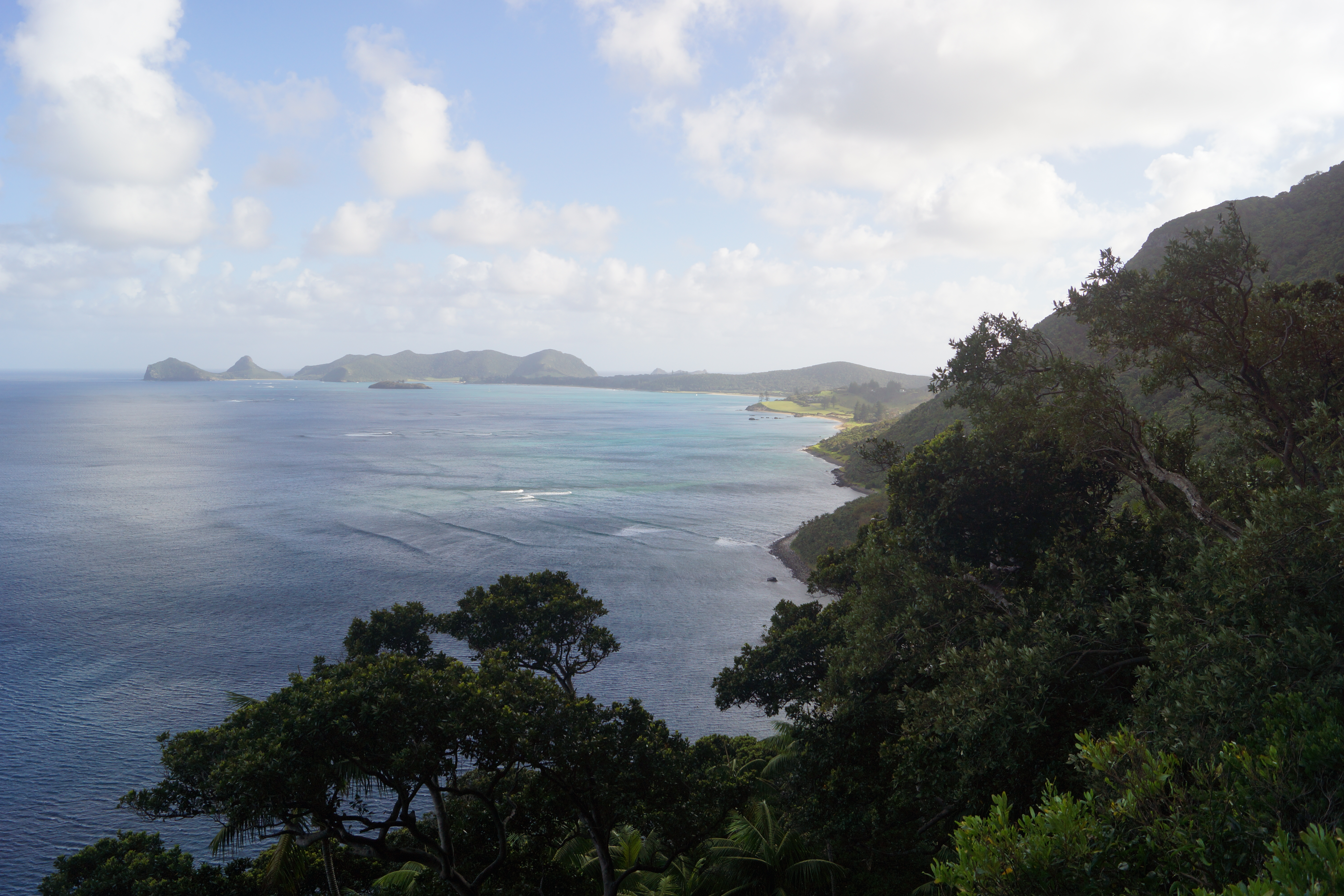 View from the Mount Gower climb